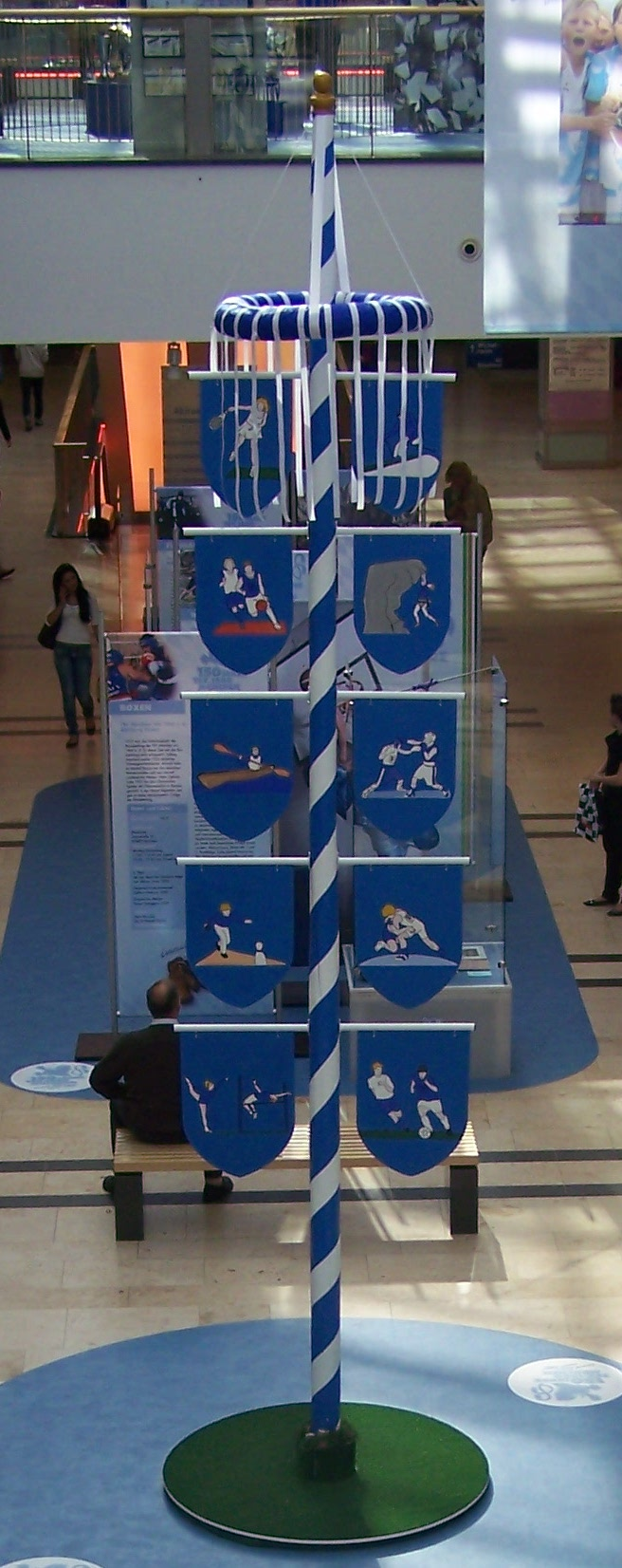 exhibition "150 Jahre Münchens große Liebe" in the Riem Arcaden